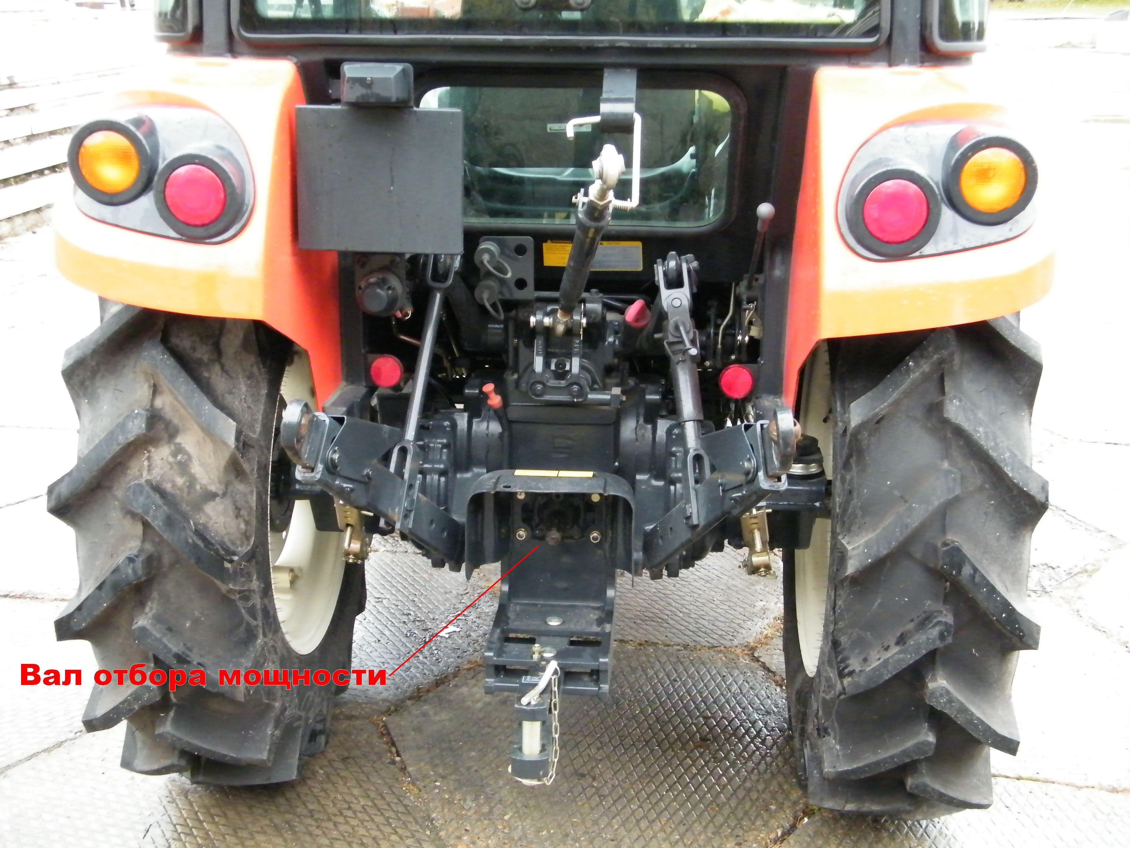 Three-point hitches